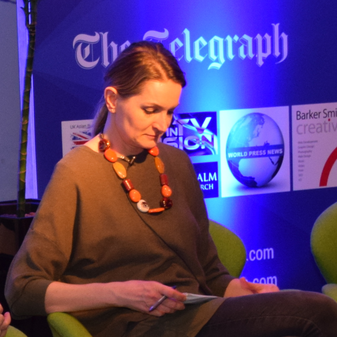 Sophie Walker during Inclusion Convention Institutional Sexual Harassment London with Kristiane Backer Sophie Walker Jillian Kowalchuk Farai Mabaiwa David Mahoney and Helen Pankhurst